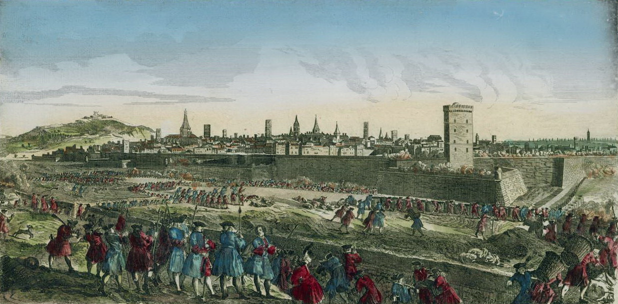 View of Maastricht, the Netherlands, showing the attaques of the army of Louis XV of France on the city in 1748 during the War of the Austrian Succession. Print in the collection of the Bibliothèque nationale de France in Paris.